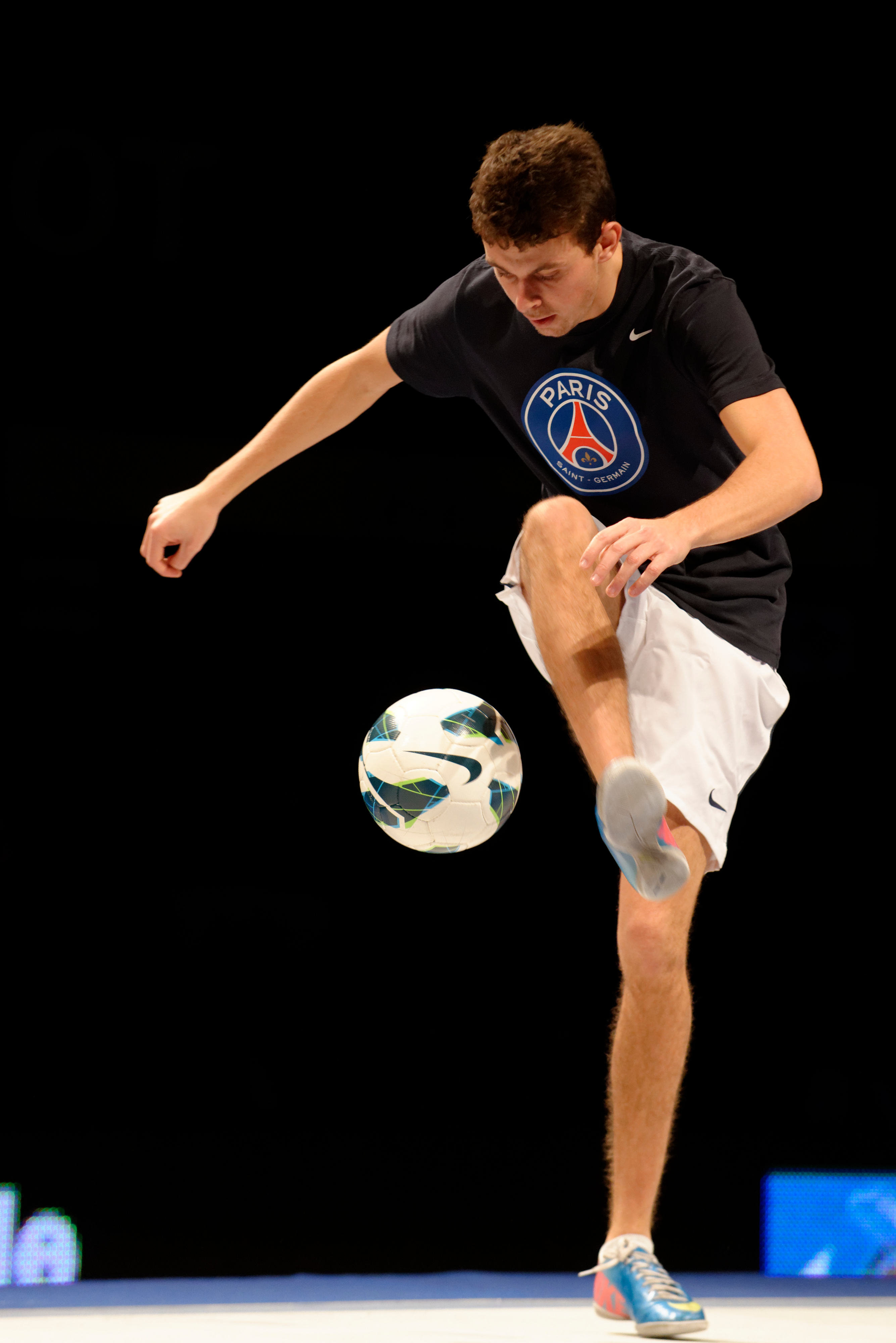 Football freestyle demonstration at the 2013 Masters à l'Epée.